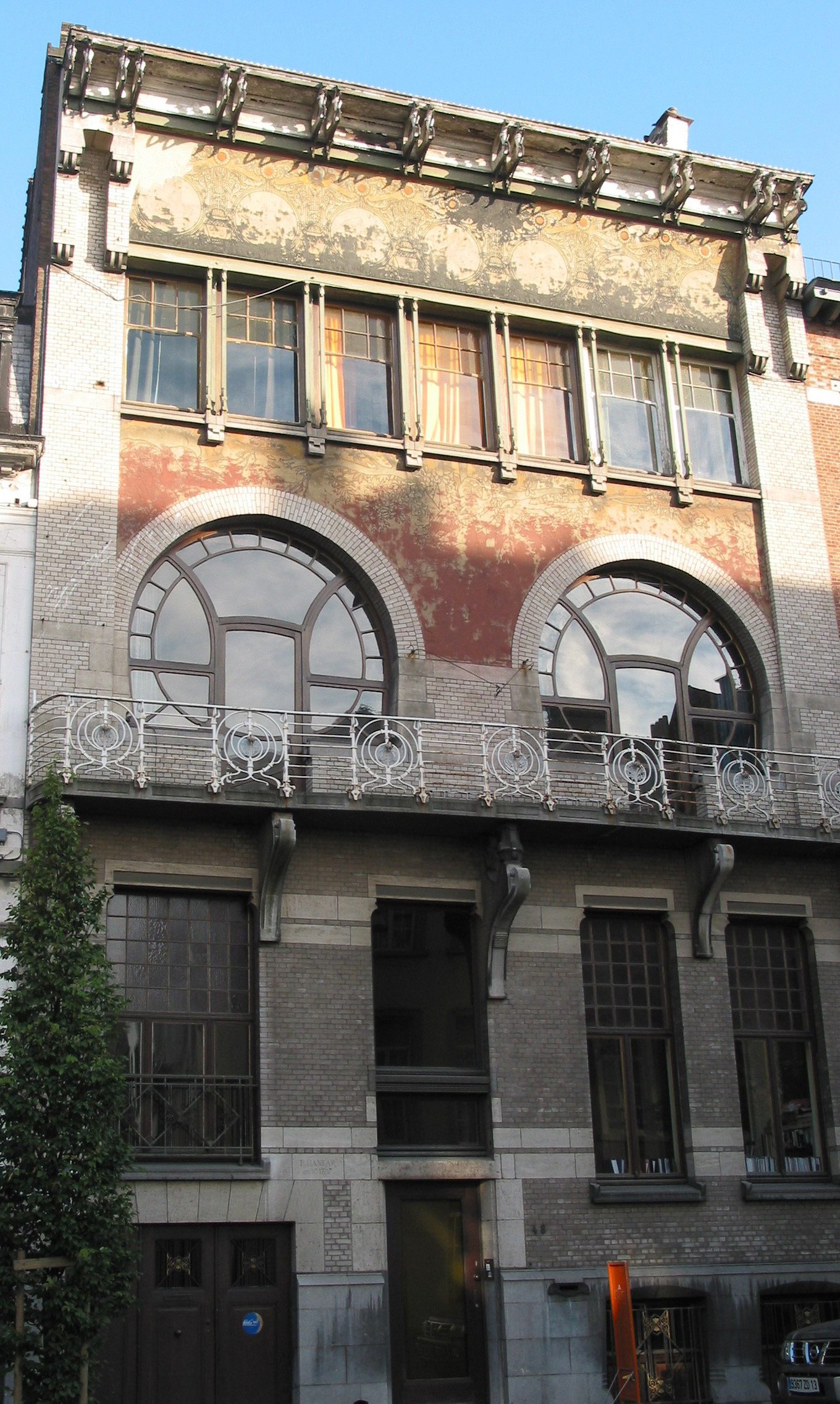 Ixelles (Belgium), Rue Defaqz, the Ciamberlani house façade (1897 - Architect: Paul Hankar).